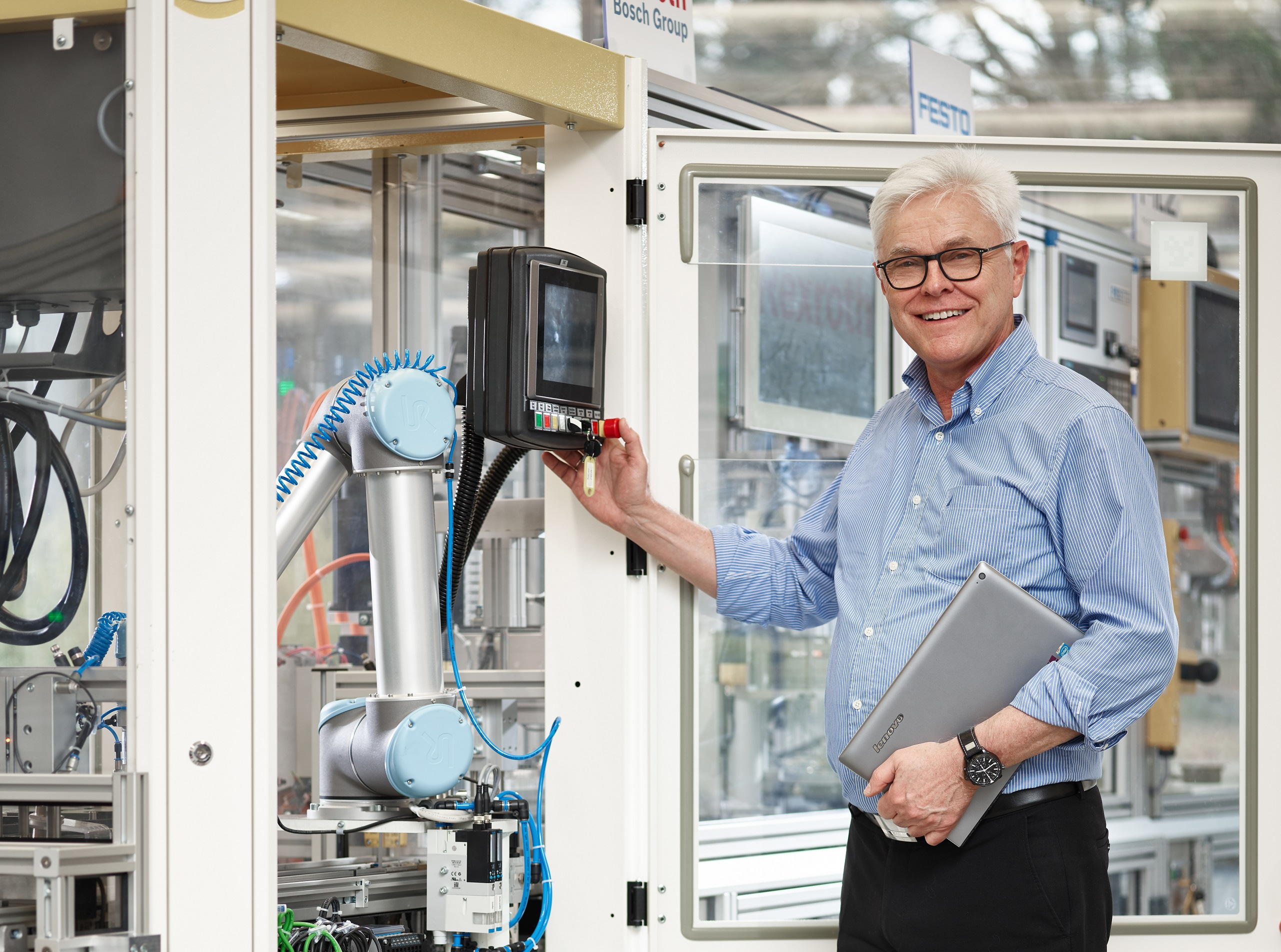 Detlef Zühlke. ©SmartFactory-KL/ C. Arnoldi